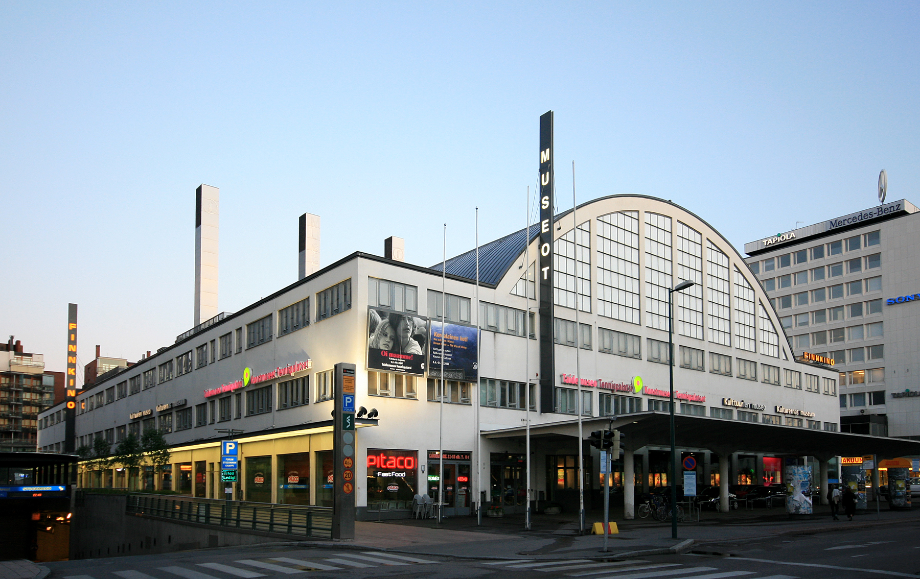 Tennispalatsi, Helsinki, Finland. Seen from Rautatiekatu.